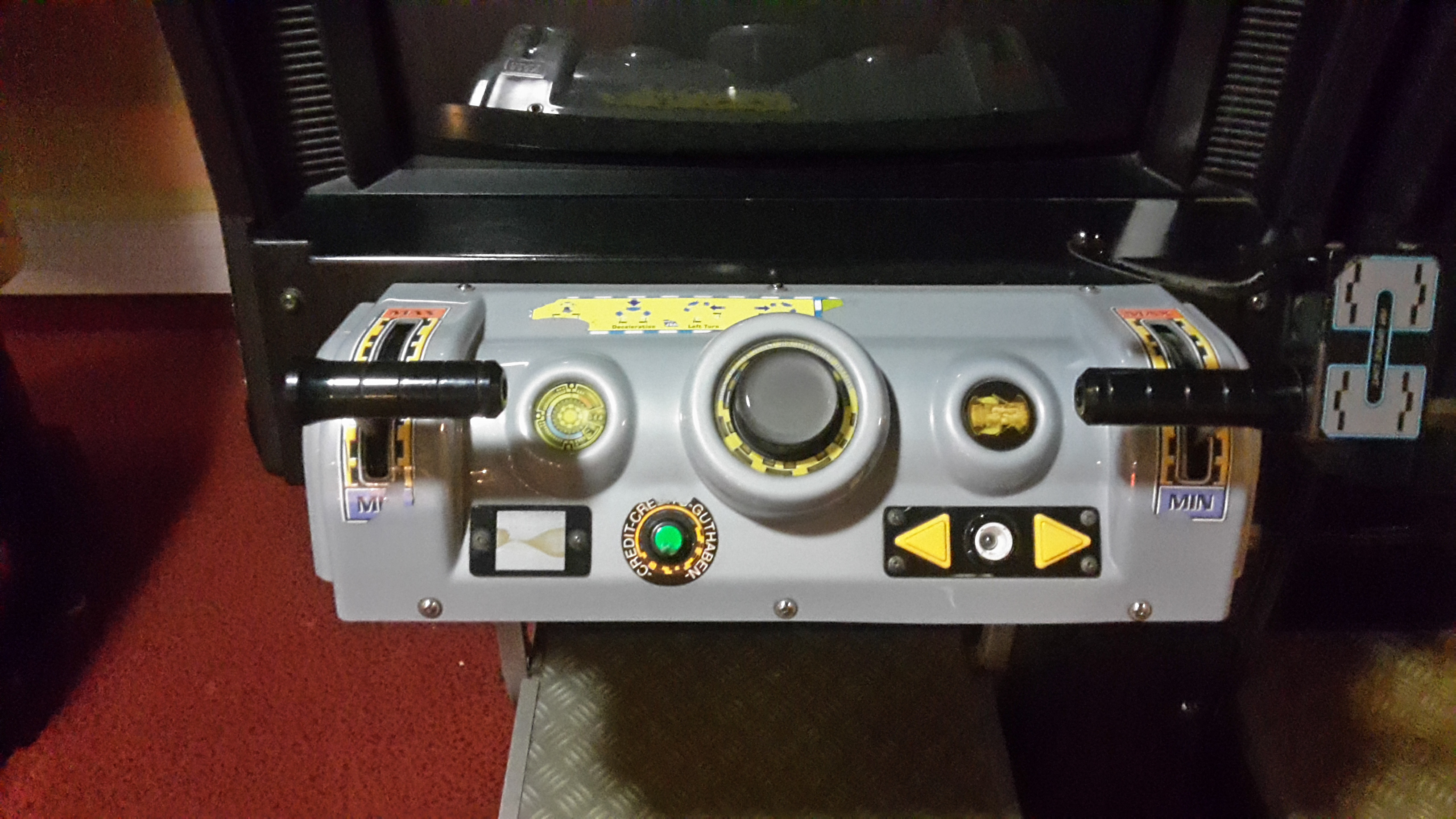 Star Wars: Racer Arcade control panel